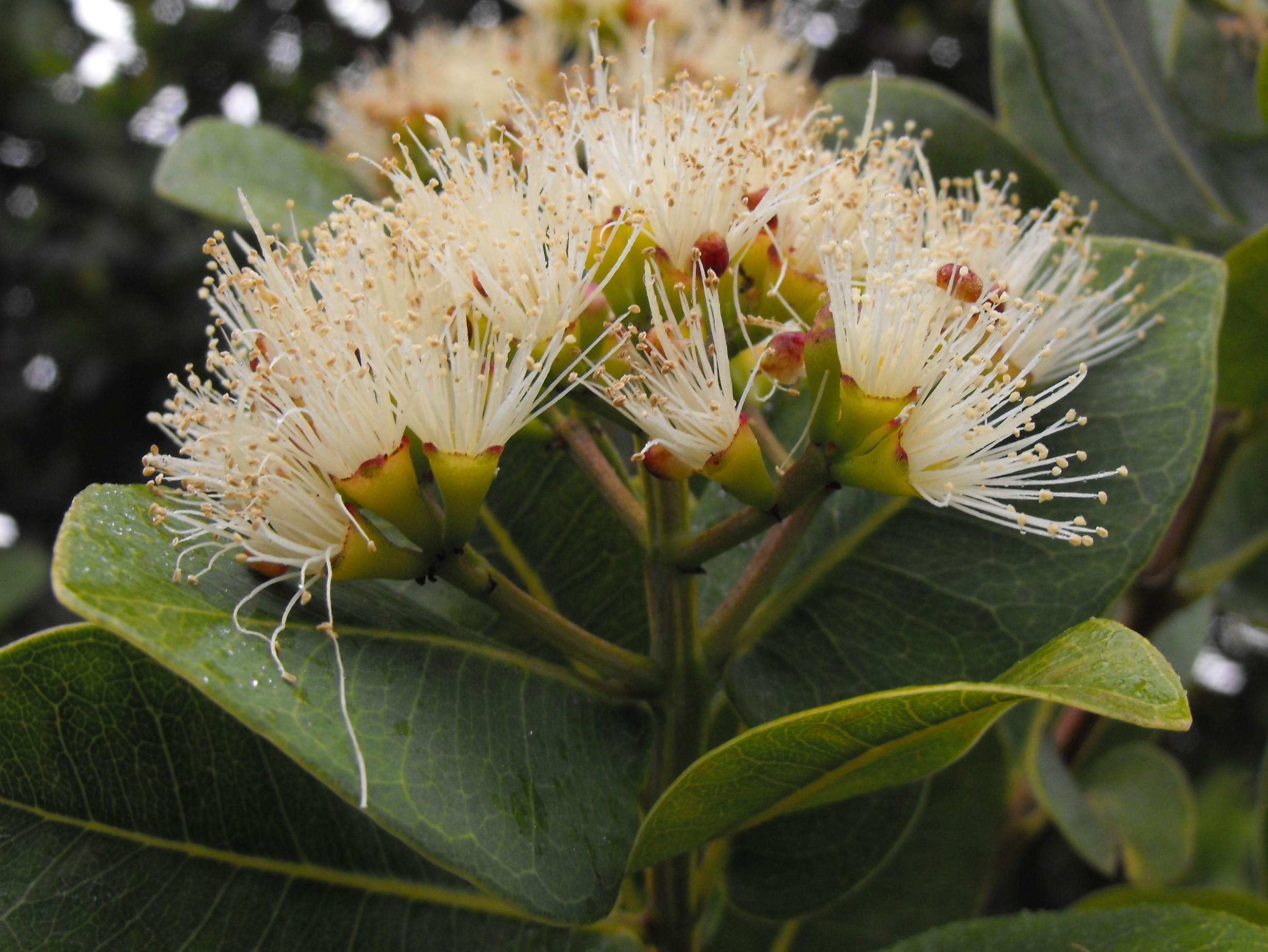 Syzygium cordatum at Quail Botanical Gardens in Encinitas, California, USA. Identified by sign.